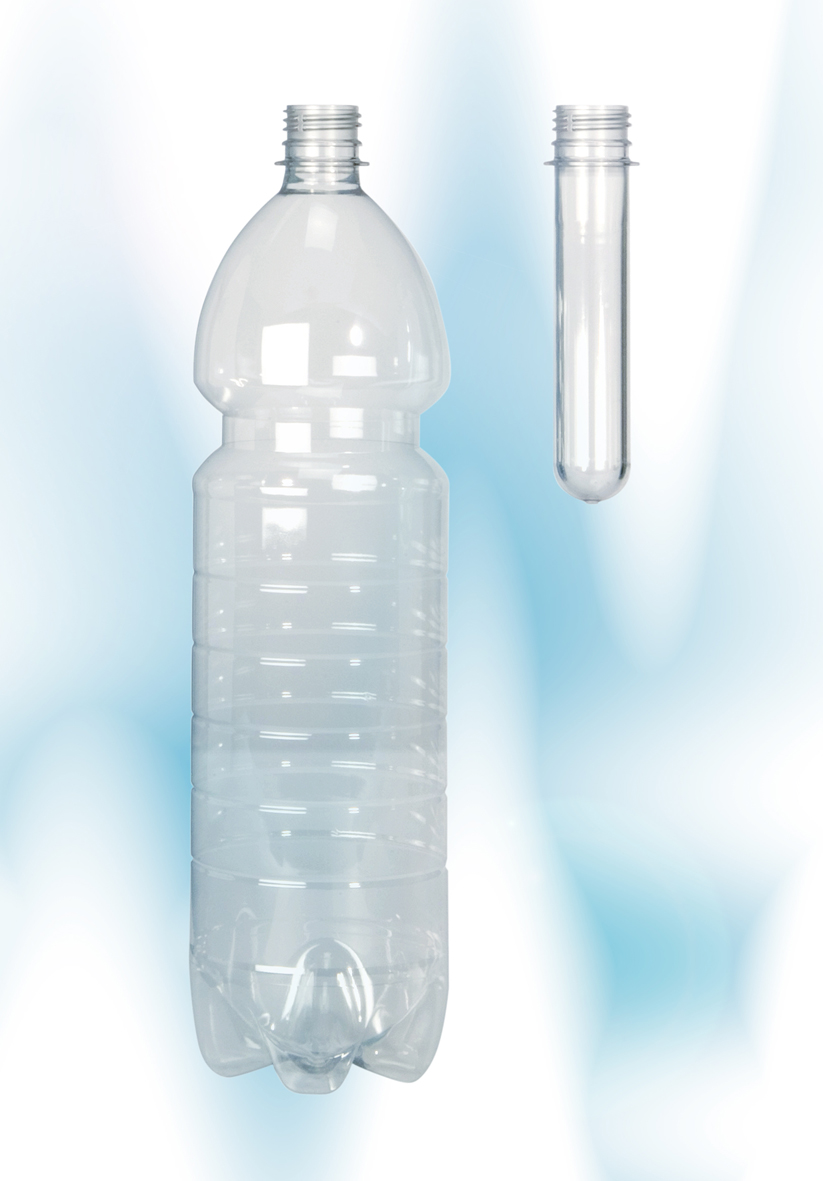 production of a plastic bottle from raw dummy to blown up PET bottle